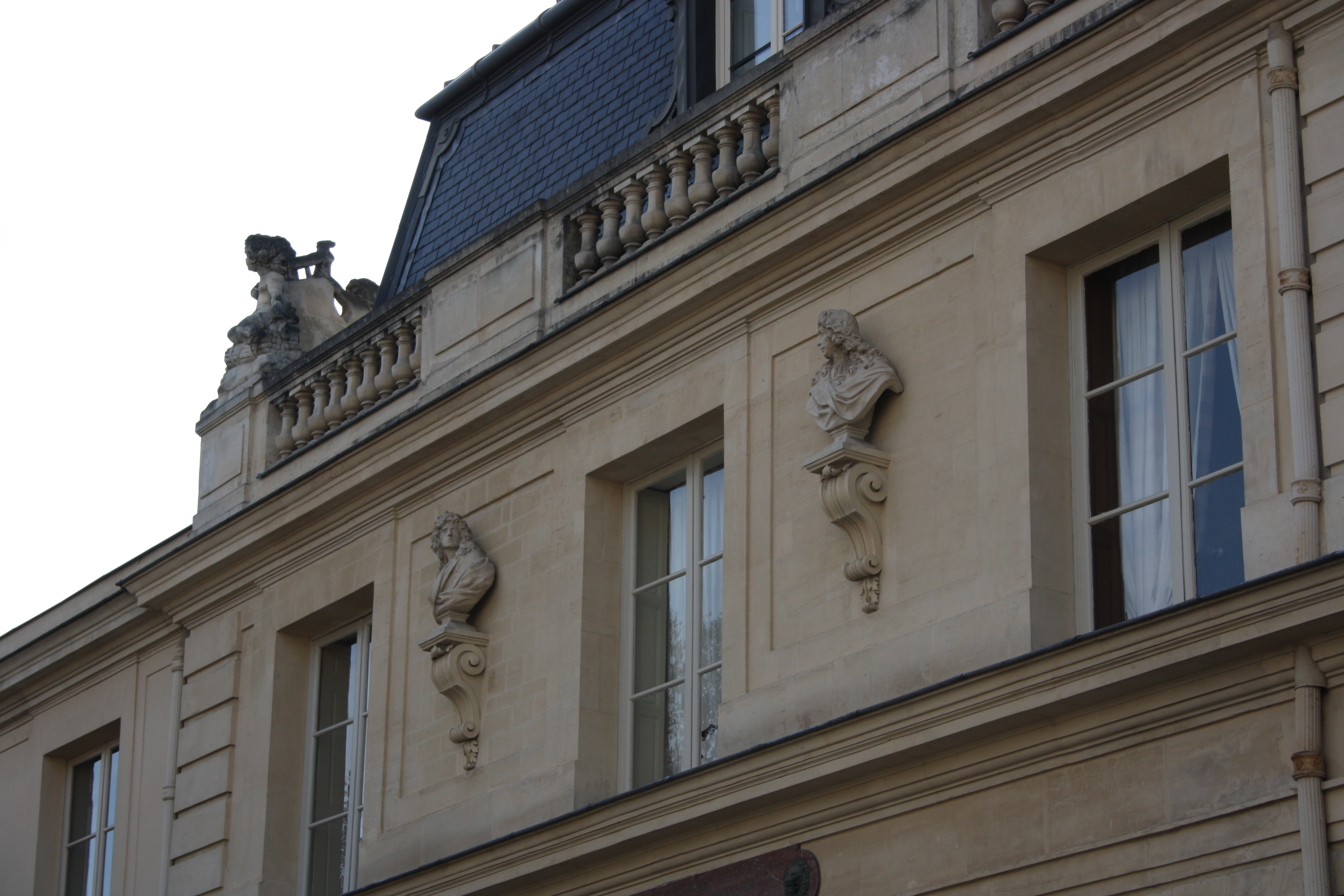 Hôtel de Noailles located 10 and 11 Alsace street in Saint-Germain-en-Laye, France.